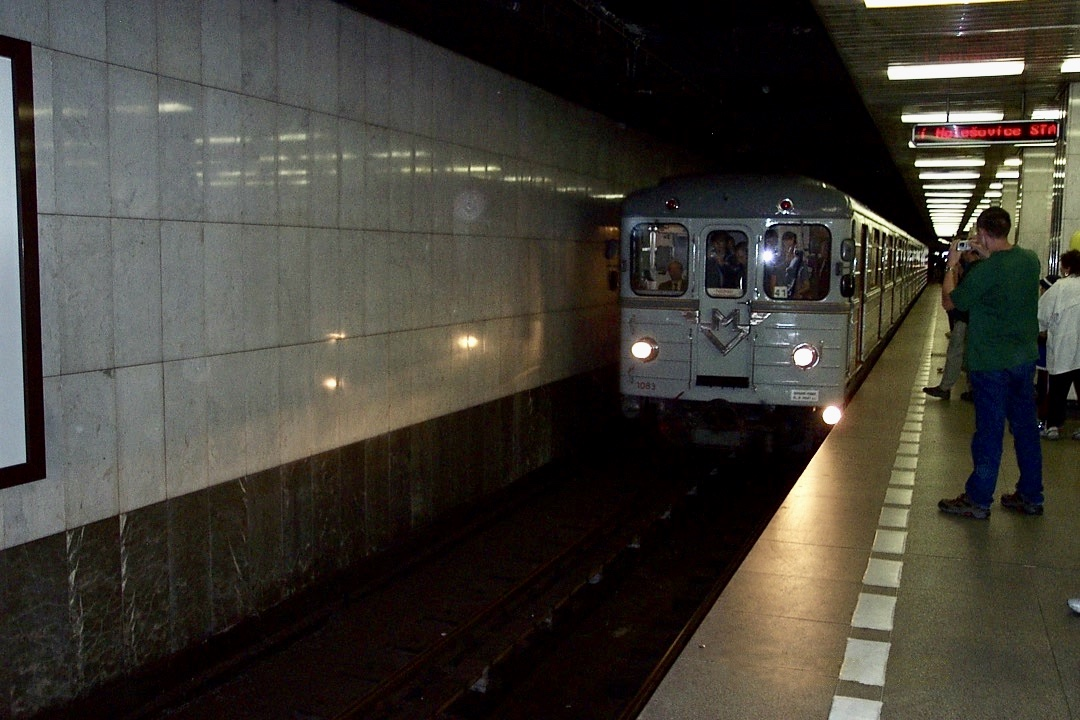 Metro station Kačerov, photographed on celebrations of 130 years of public transit in Prague